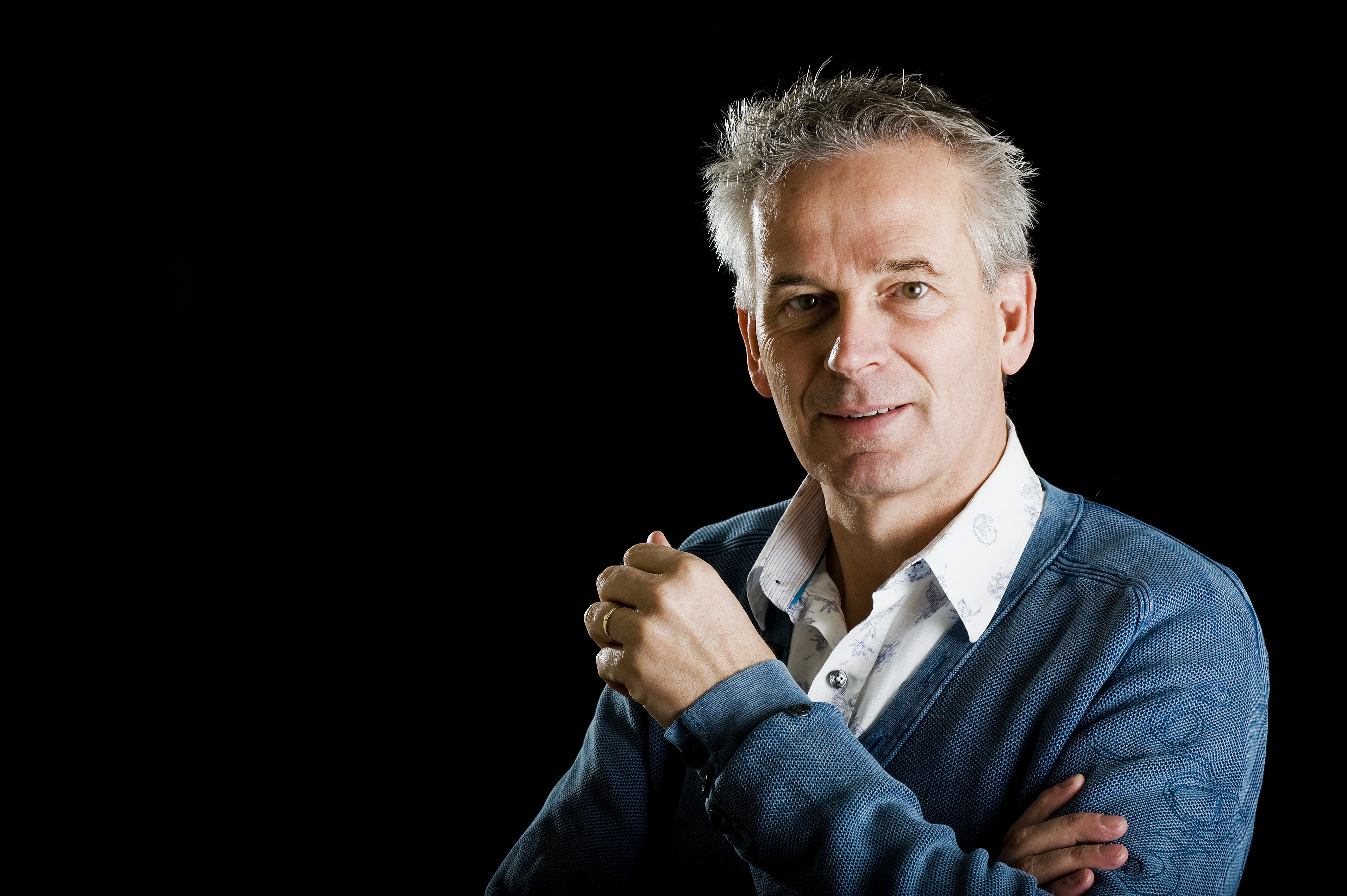 Tiel 14-01-2014 Roemer Daalderop. Foto Raphaël Drent, Tiel.